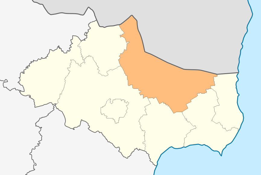 Map of General Toshevo municipality, Dobrich Province